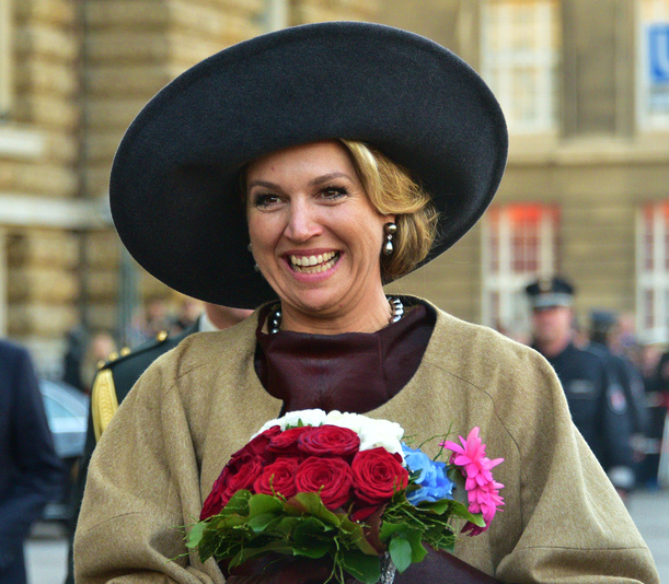 The Dutch royal couple and its delegation will be welcomed by Hamburg’s First Mayor Olaf Scholz at city hall on March 19, 2015. Then, the royals will attend the closing ceremony of the trilateral conference: “Offshore Wind in the Netherlands, Germany and Denmark, a contribution to the European Energy Transition” in the Hamburg Chamber of Commerce. On its panel, German, Dutch and Danish experts will talk about the contribution of the three countries towards the energy revolution in Europe. The three speeches on the agenda will be held by His Majesty King Willem-Alexander, Hamburg’s First Mayor Olaf Scholz, and the former President of the Hamburg Chamber of Commerce, Dr. Karl-Joachim Dreyer. Aftwerwards, the royal couple will be asked to sign the guestbook of the Hamburg Chamber of Commerce. More Photos At